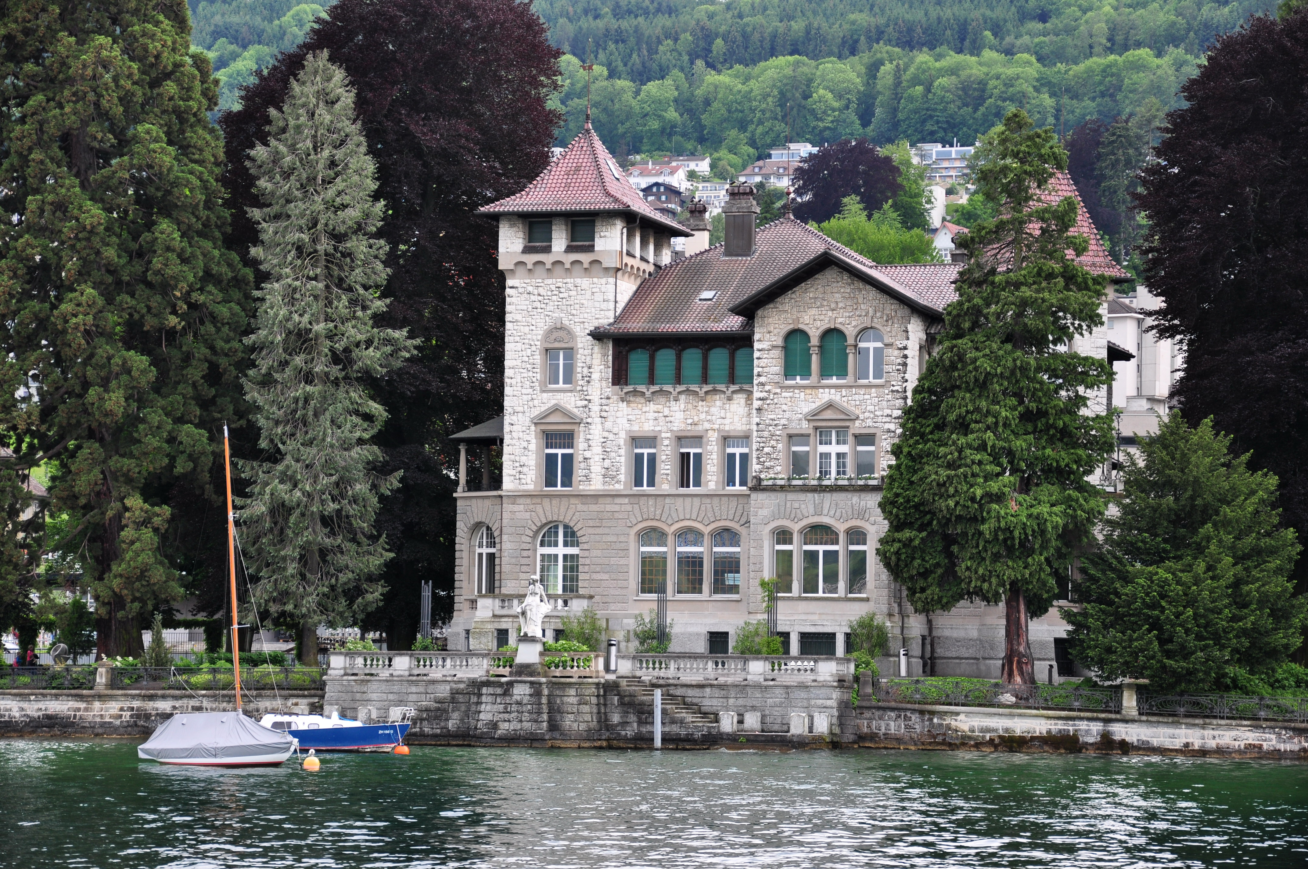 Villa Seerose in Horgen (Switzerland) as seen from ZSG motorship Wädenswil